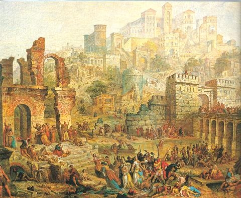 Massacre of Jewish people in Metz (Holy Roman Empire) during the First Crusade